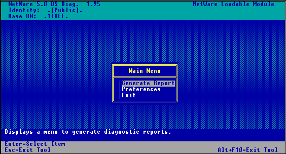 CWorthy Application Interface Sample Screen Shot